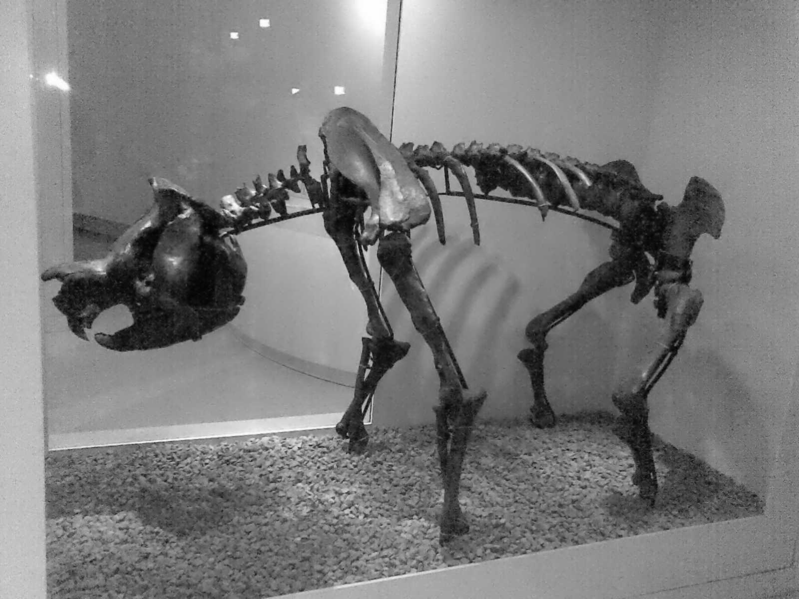 Fossil Zygomaturus from the Victoria Museum